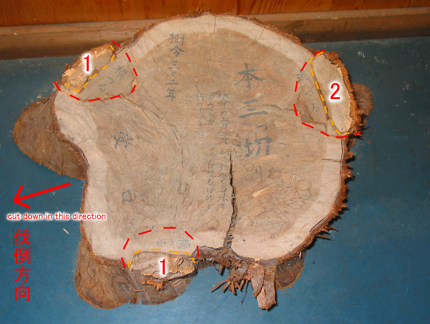 Mitsuhimo-giri The traditional method of cutting tree at Kiso and Uragiso area in Japan. I took this image at Akazawa Shizen Kyūyōrin Agematsu Kiso Nagano Pref., Japan. 三ツ紐伐り 長野県木曽郡上松町の赤沢自然休養林の森林資料館にて撮影